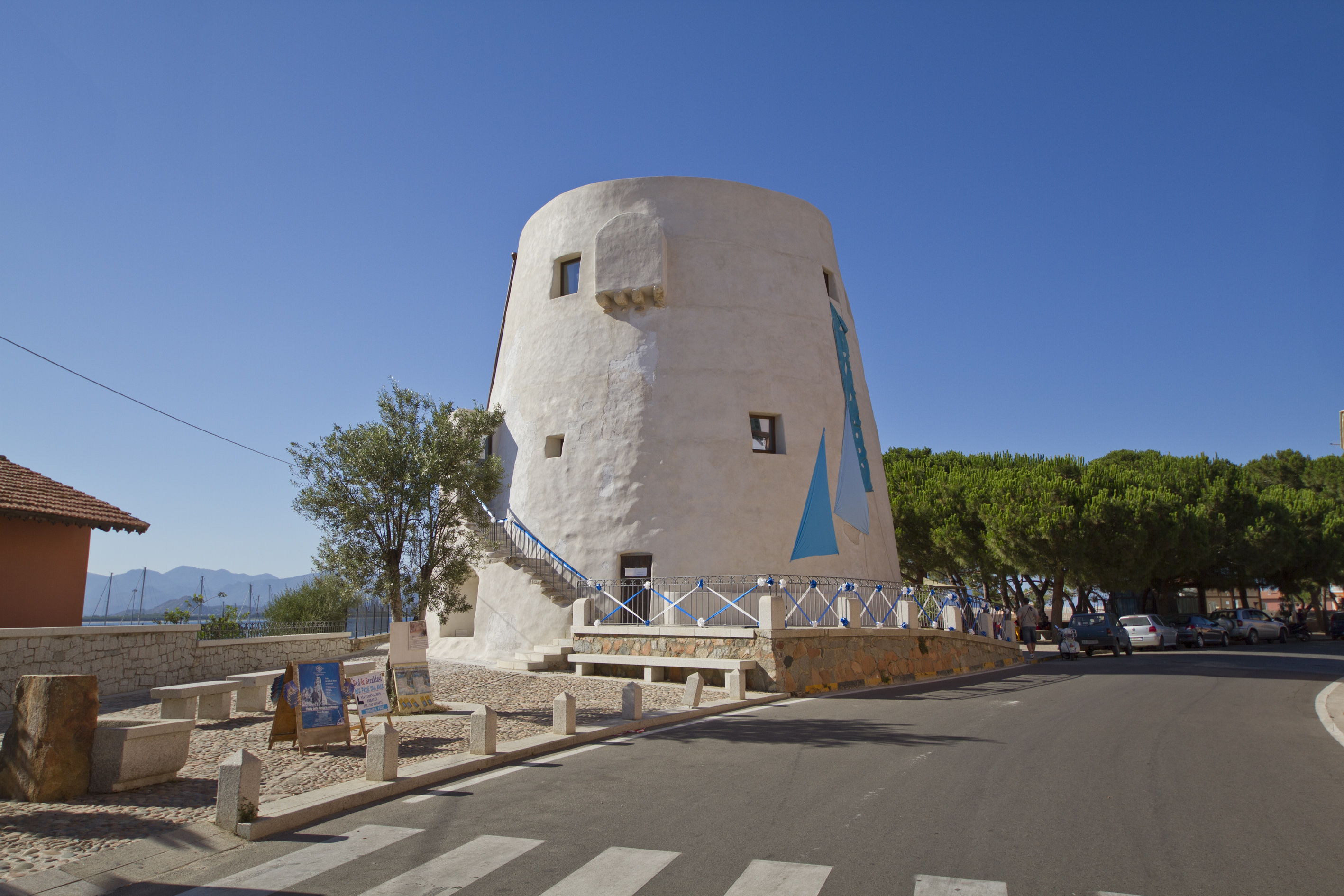 Spanish tower